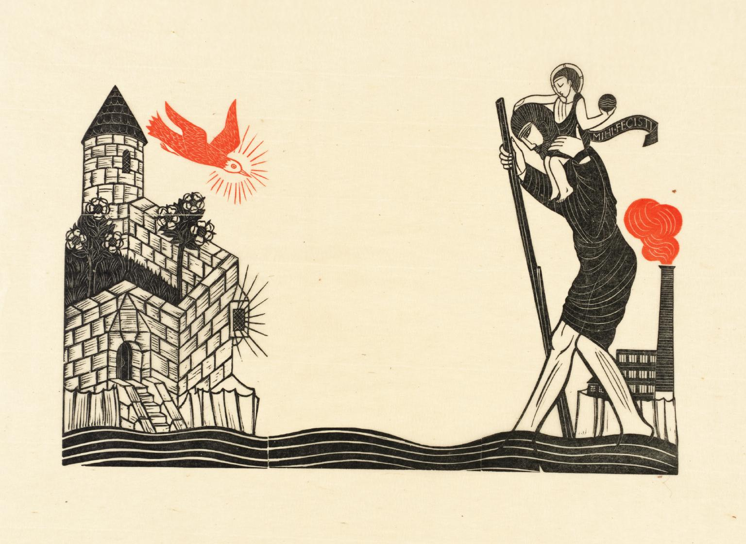 Wood engraving of Eric Gill's design fo the Daily Herald's 'Order of Industrial Heroism' certificate. This copy in the Tate collection.